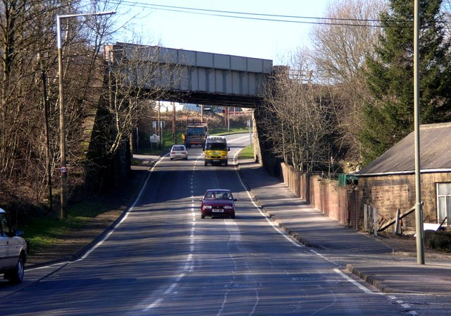 Railway Bridge crossing over Sheffield Road near Unstone. This view is looking north towards Dronfield.